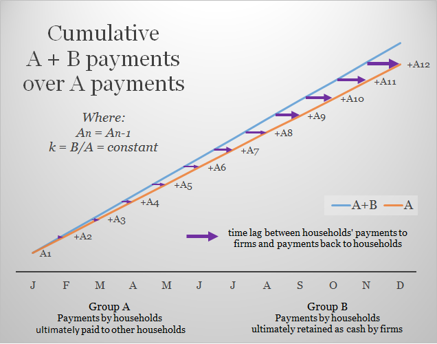 This is a visual example of the A+B Theorem.